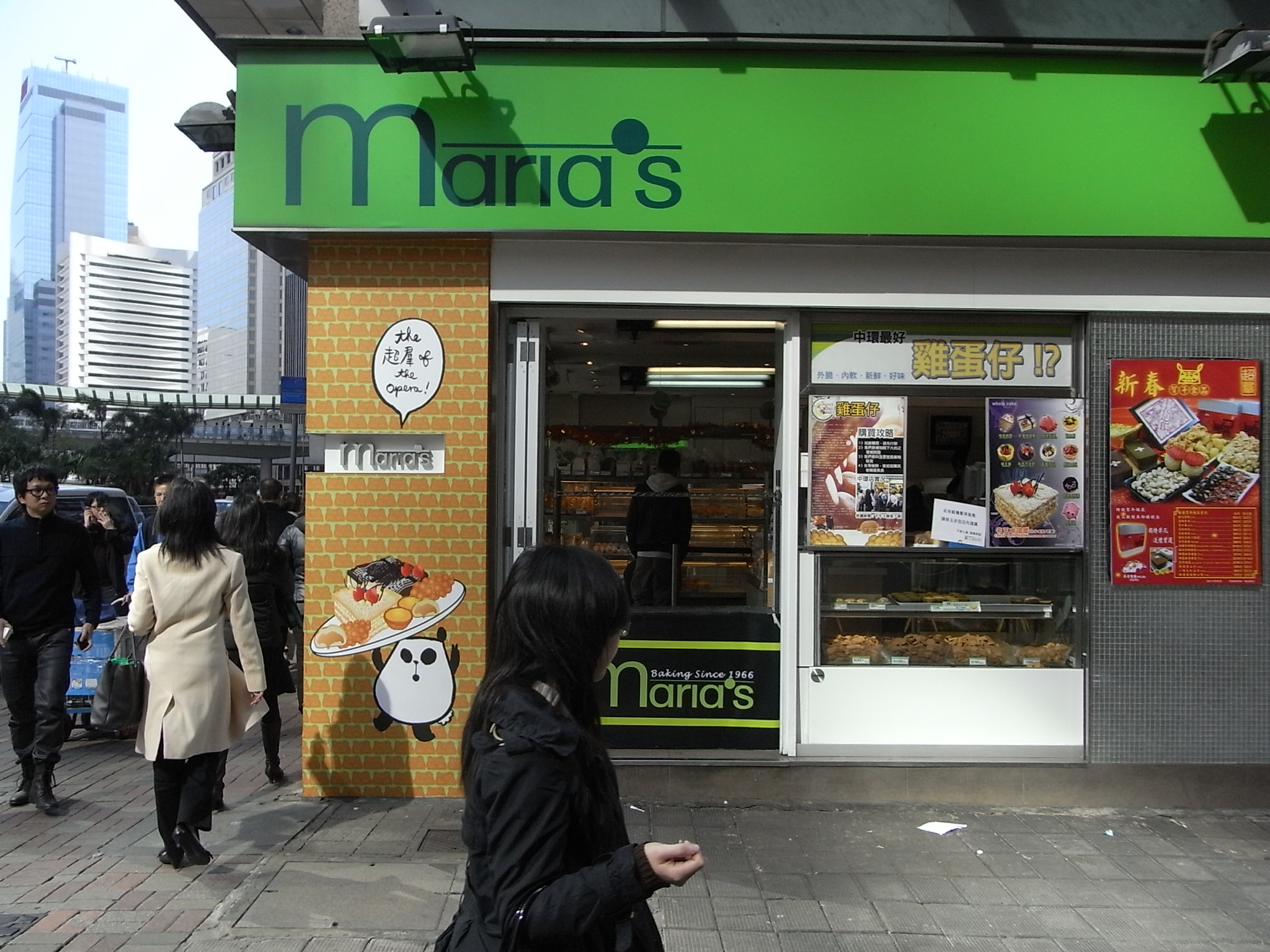 中環超羣西餅